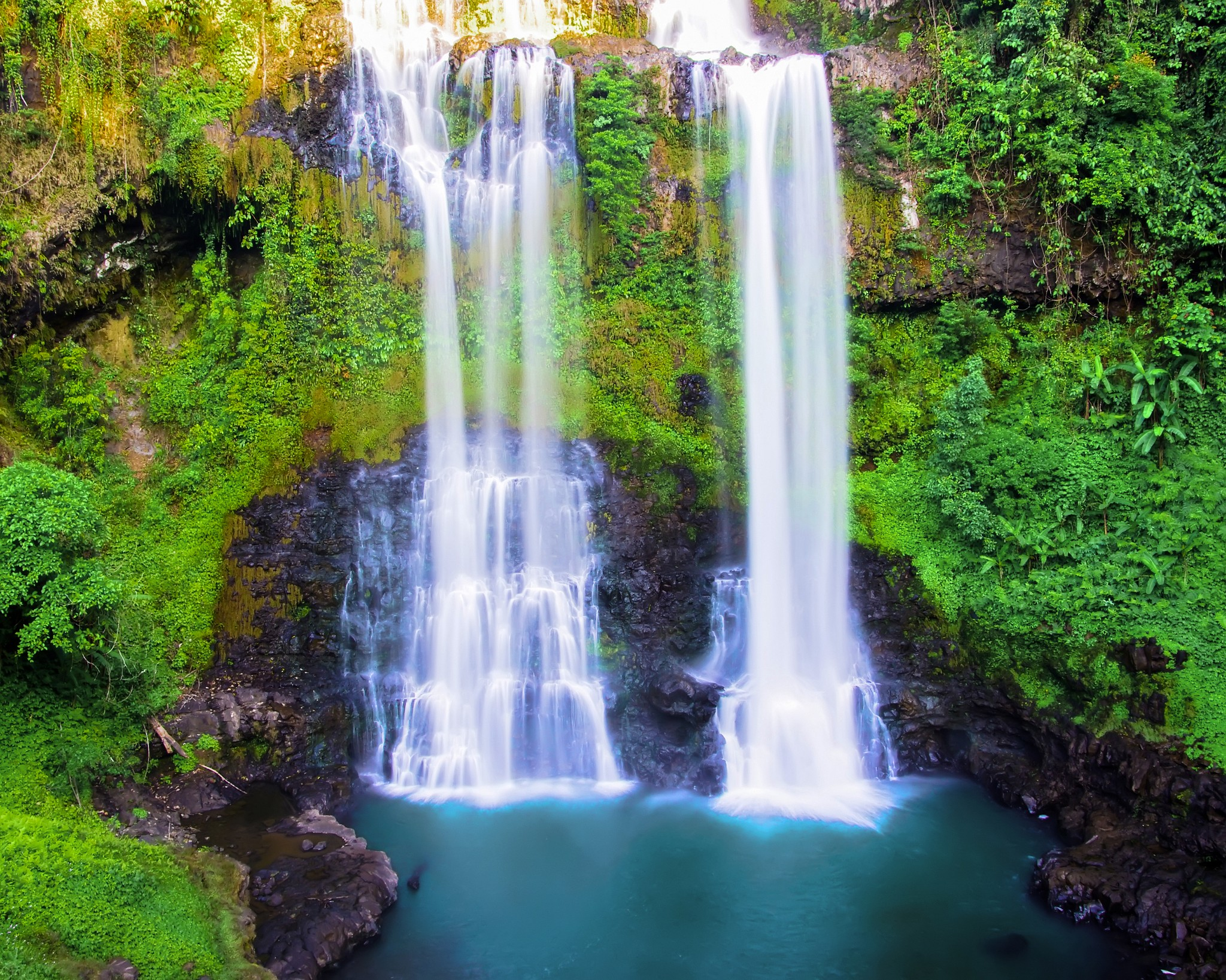 Waterfall in PakSong, Laos.